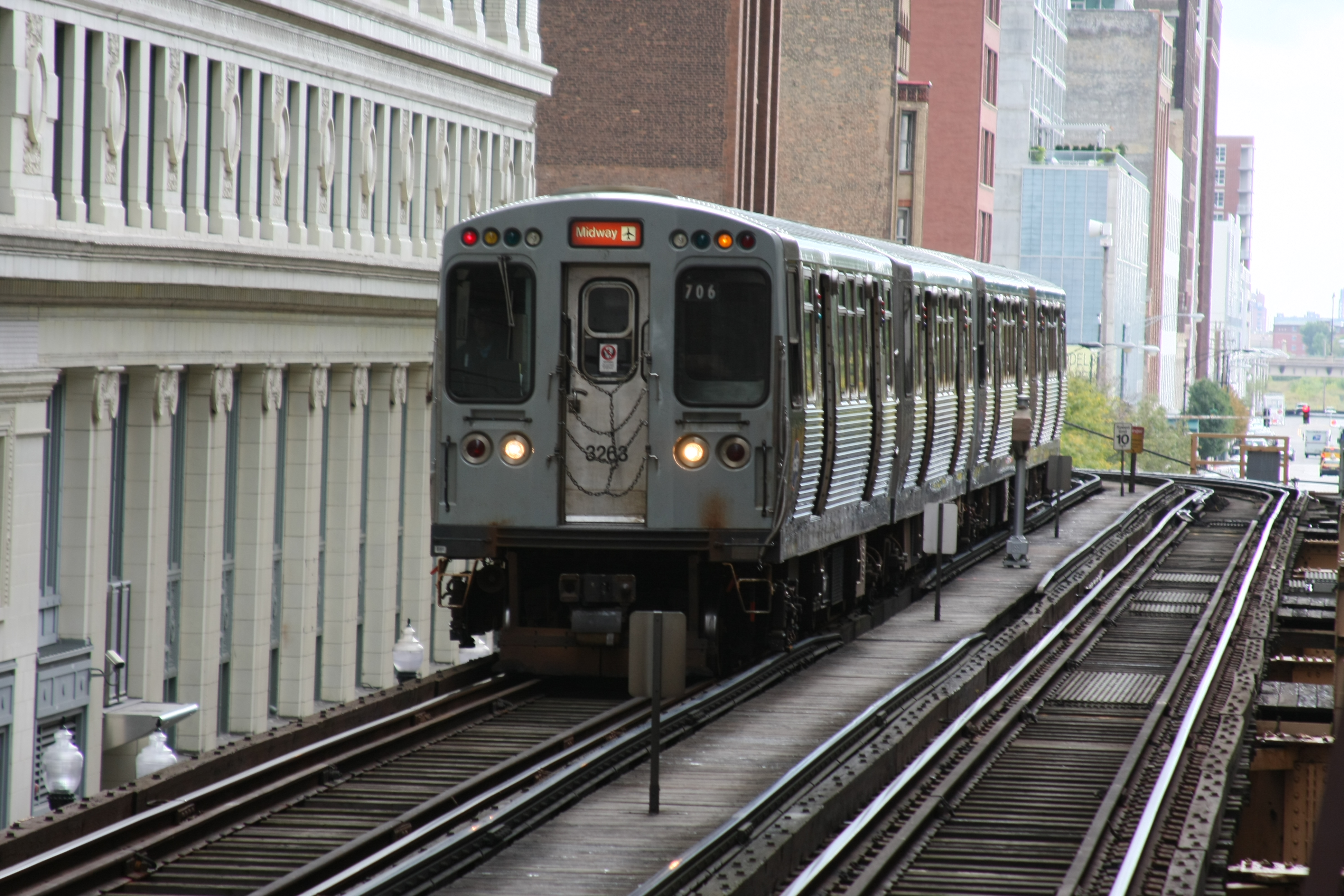 A four-car 3200-series 'L' train rounds the curve at Van Buren and Wells Streets as it approaches Quincy in the Chicago Loop